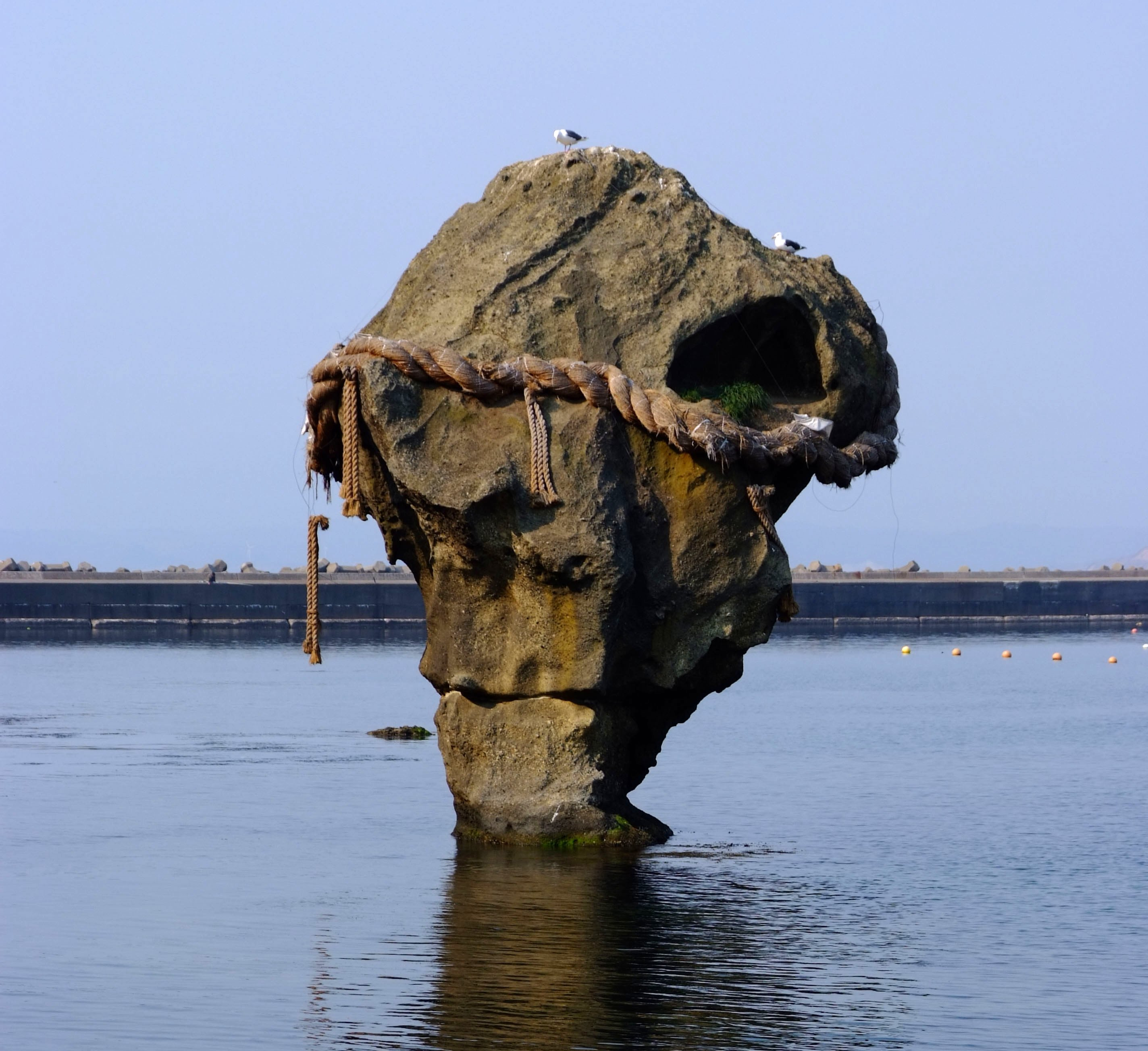 Heishiiwa Mushroom rock in Esashi, Hokkaido, Japan